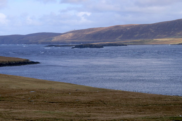 View towards Westing, Unst, from Cullivoe Looking across Bluemull Sound towards Westing on Unst. The Vere is the nearest skerry, while the radome on top of Saxa Vord can just be seen poking above the Valla Field ridge.